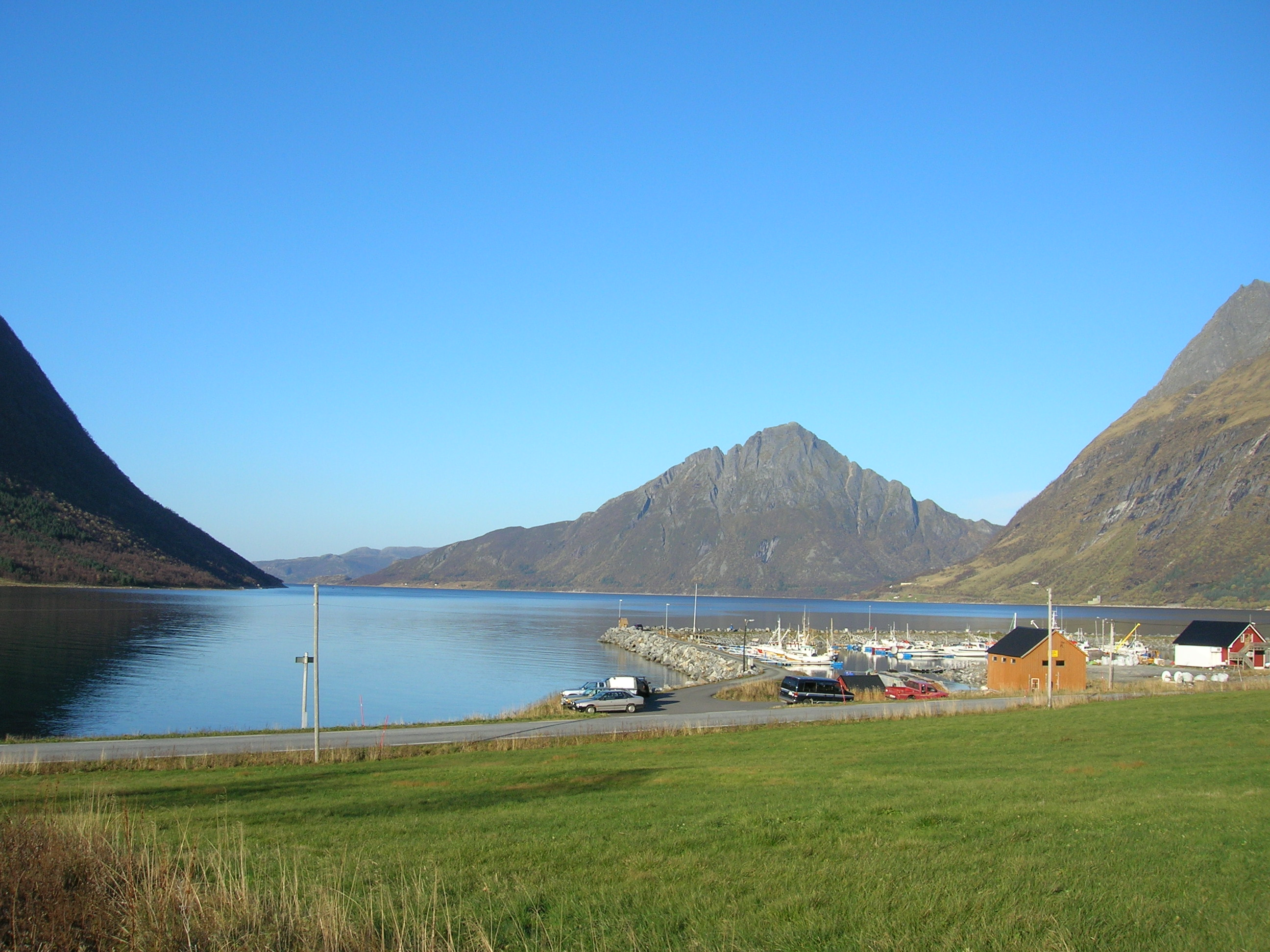 Picture from Aldersundet, Lurøy municipality, Nordland, Norway, Photo October 8, 2005 with a Nikon Coolpix 5600 5,1 Megapixel camera.